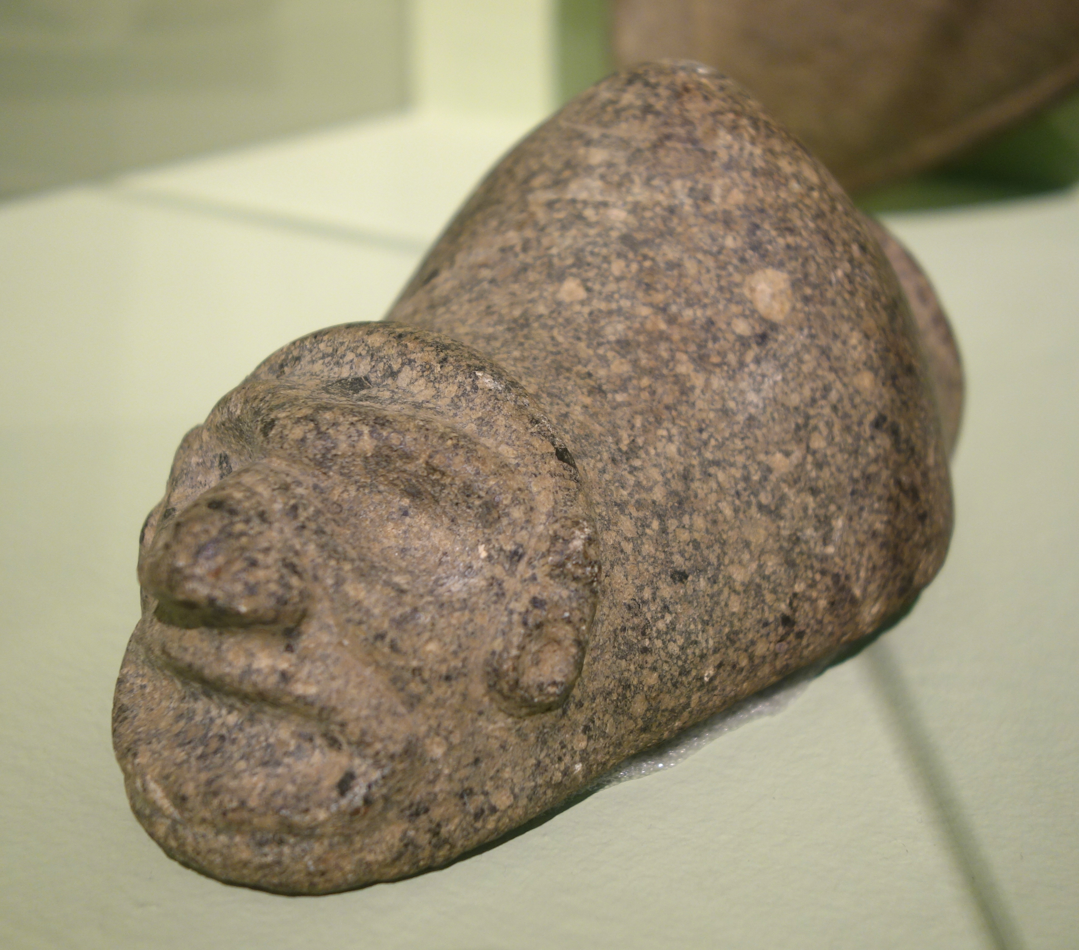 Exhibit in the Fitchburg Art Museum, Fitchburg, Massachusetts, USA. This artwork is old enough so that it is in the public domain.